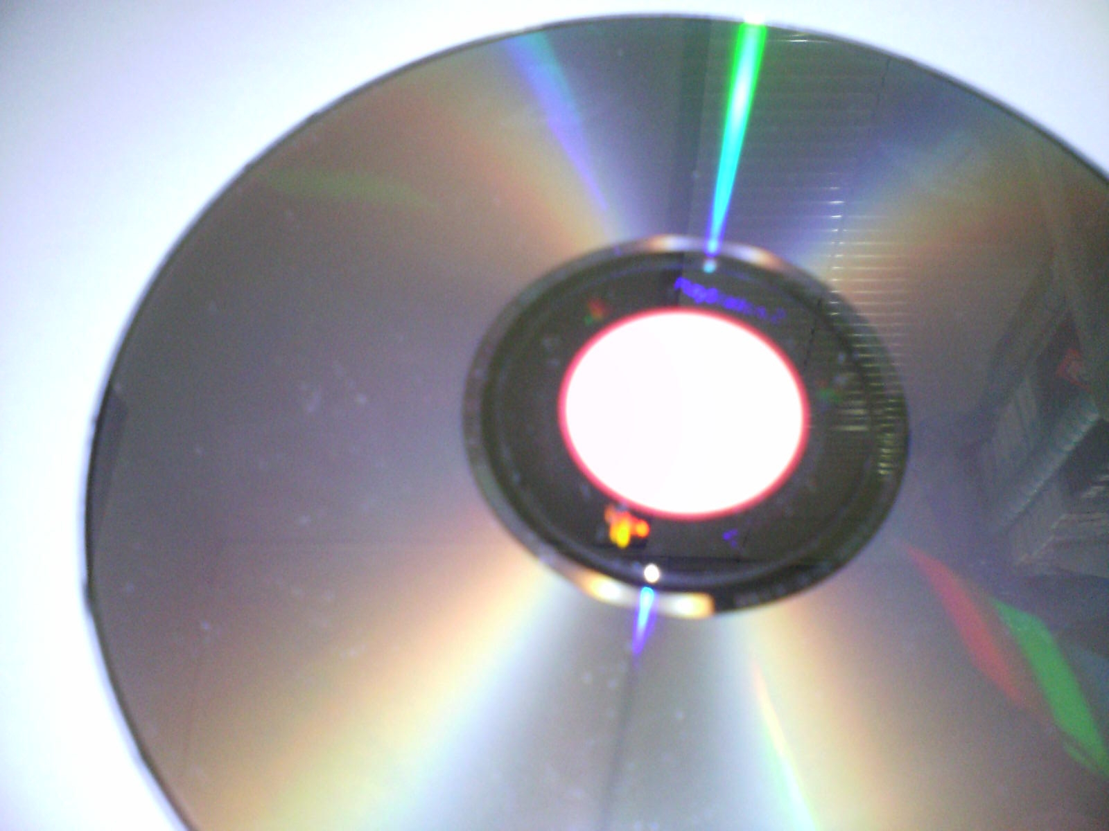 DVD-ROM for PlayStation 2 (Sample:DDRMAX2)